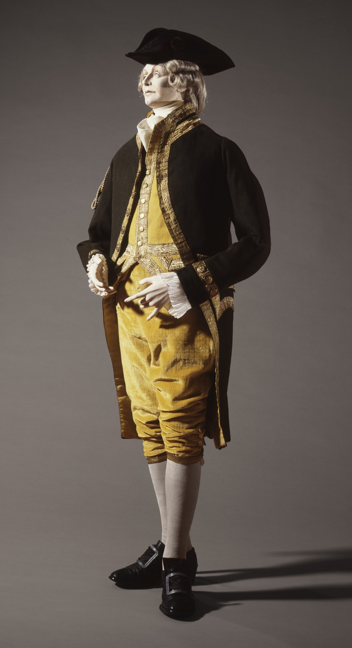 Ireland, circa 1790 Costumes; ensembles Wool broadcloth, plush, silver gilt galloon trim, gilt brass buttons Costume Council Fund (M.81.5a-c) Costume and Textiles